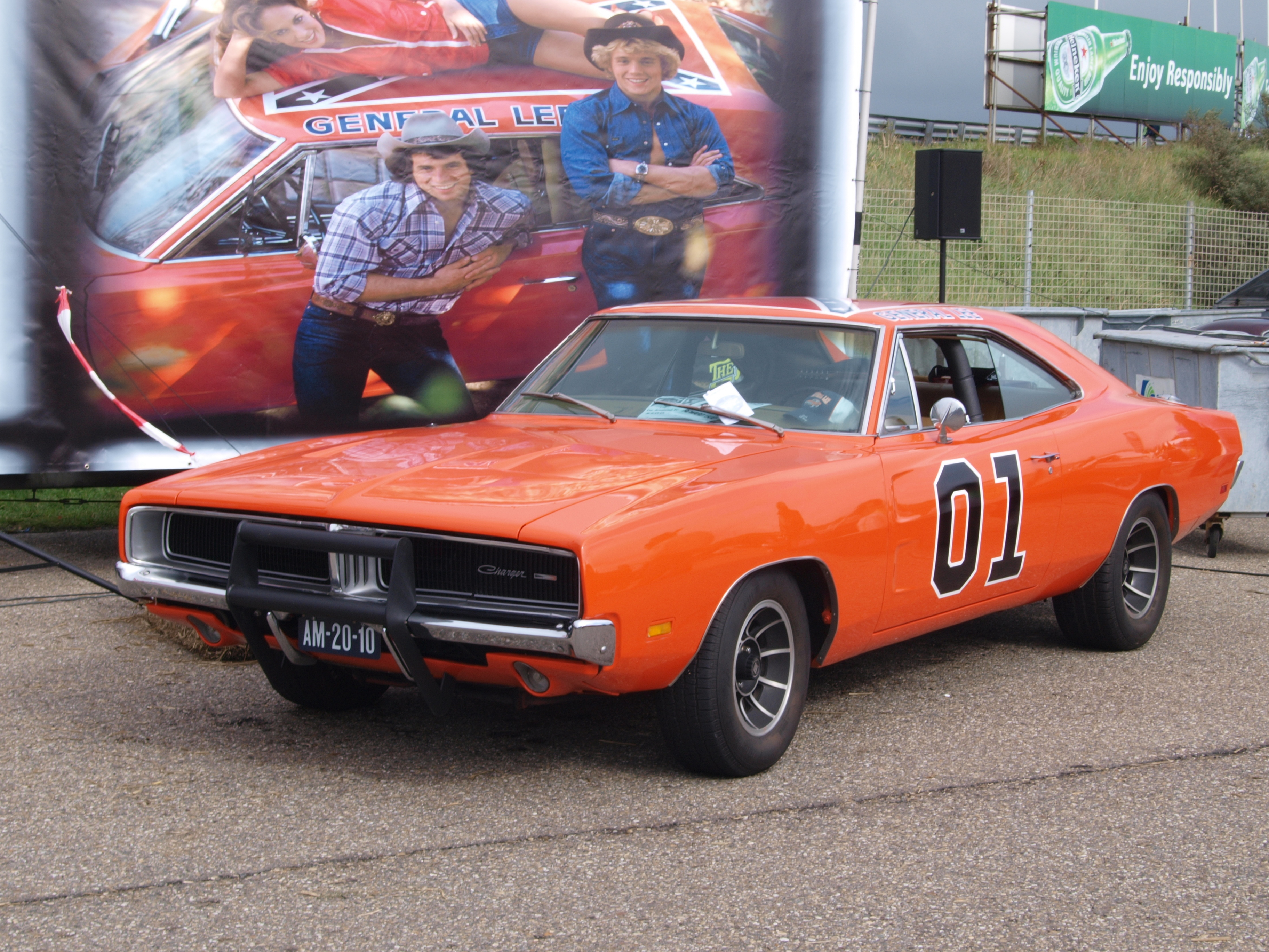 Photographed at the Nationaal Oldtimer Festival Zandvoort 2010, The Netherlands.